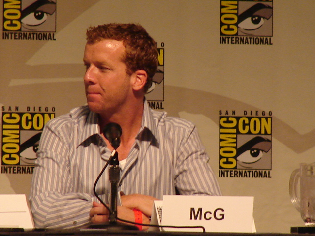 Comic-Con: Friday, July 27th